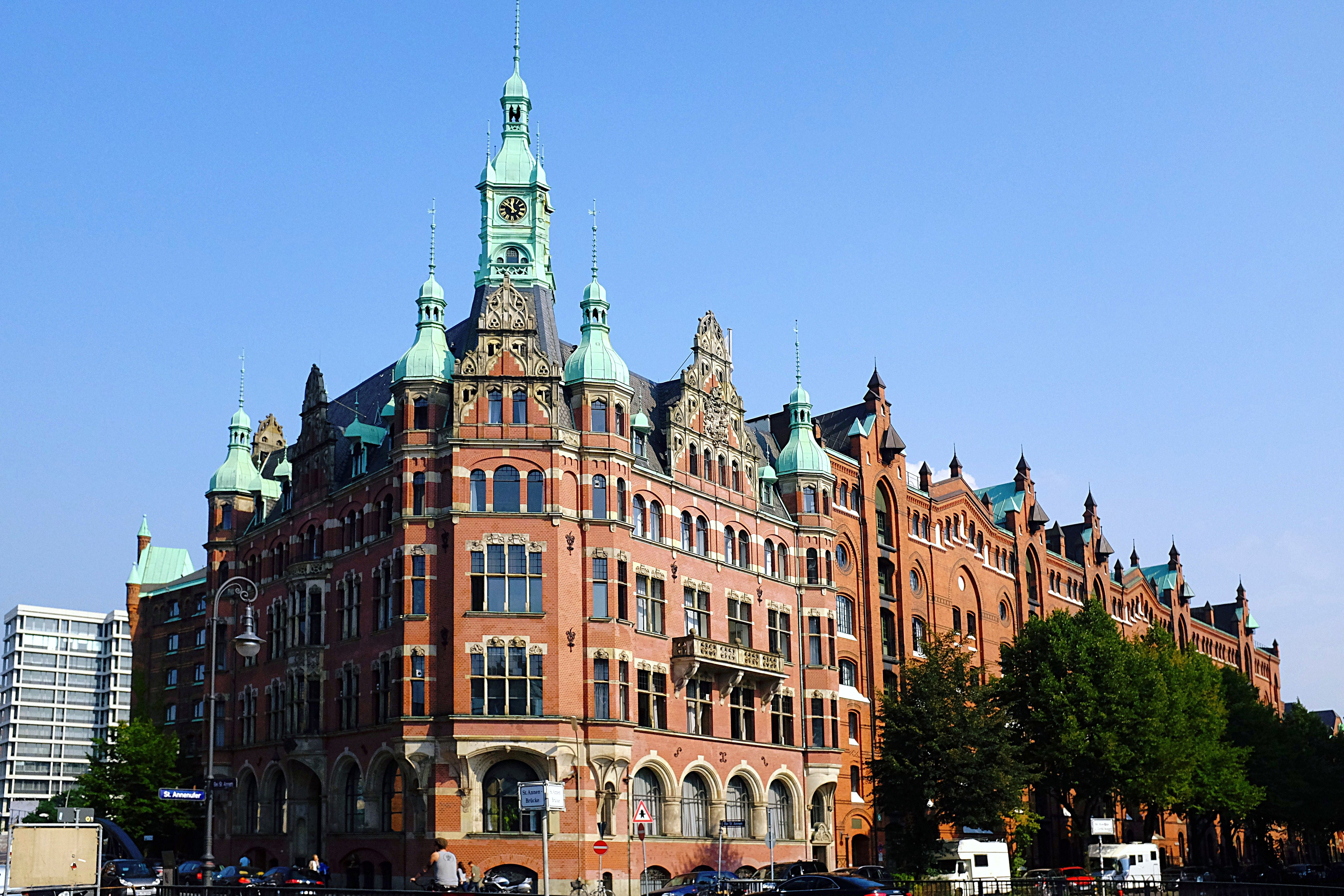 Taken during a awalk around HafenCity in Hamburg